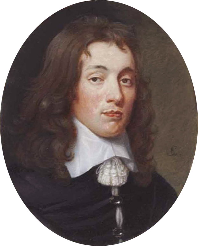 Thomas Rivers, 2nd Bt. (d. 1657) signed c.r.: with monogram 'SC.' on vellum oval, 55 mm. high